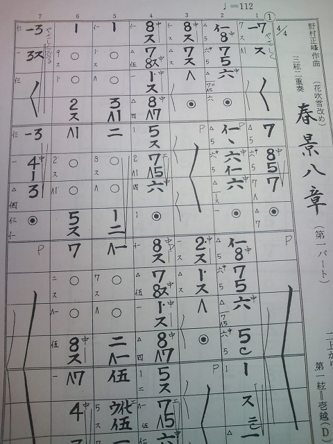 Picture of shamisen 'jiuta' tablature written in vertical style.